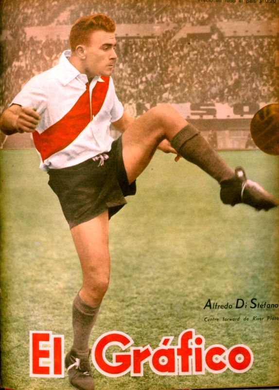 Alfredo Di Stefano playing for River Plate during his first years of career, in 1947.